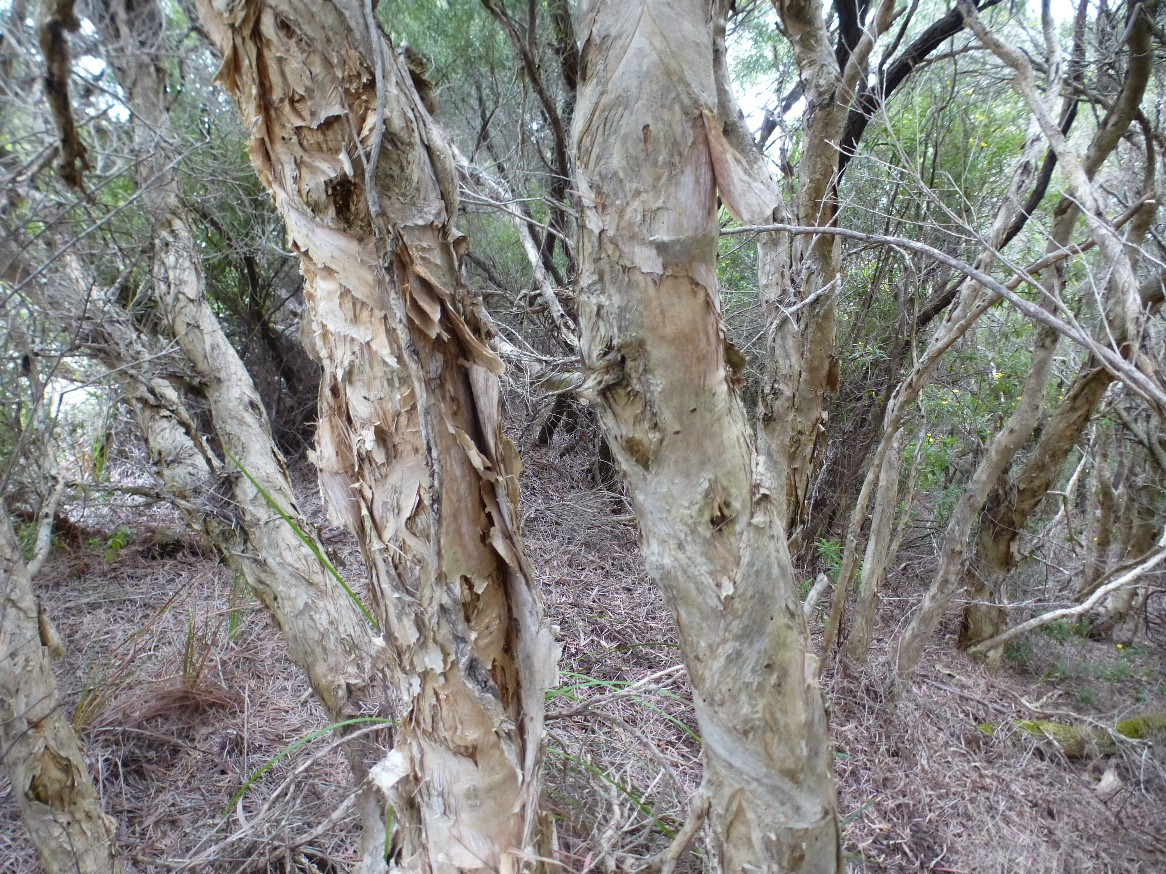 Melaleuca croxfordiae at the type location, Shelly Beach Road (West Cape Howe National Park)